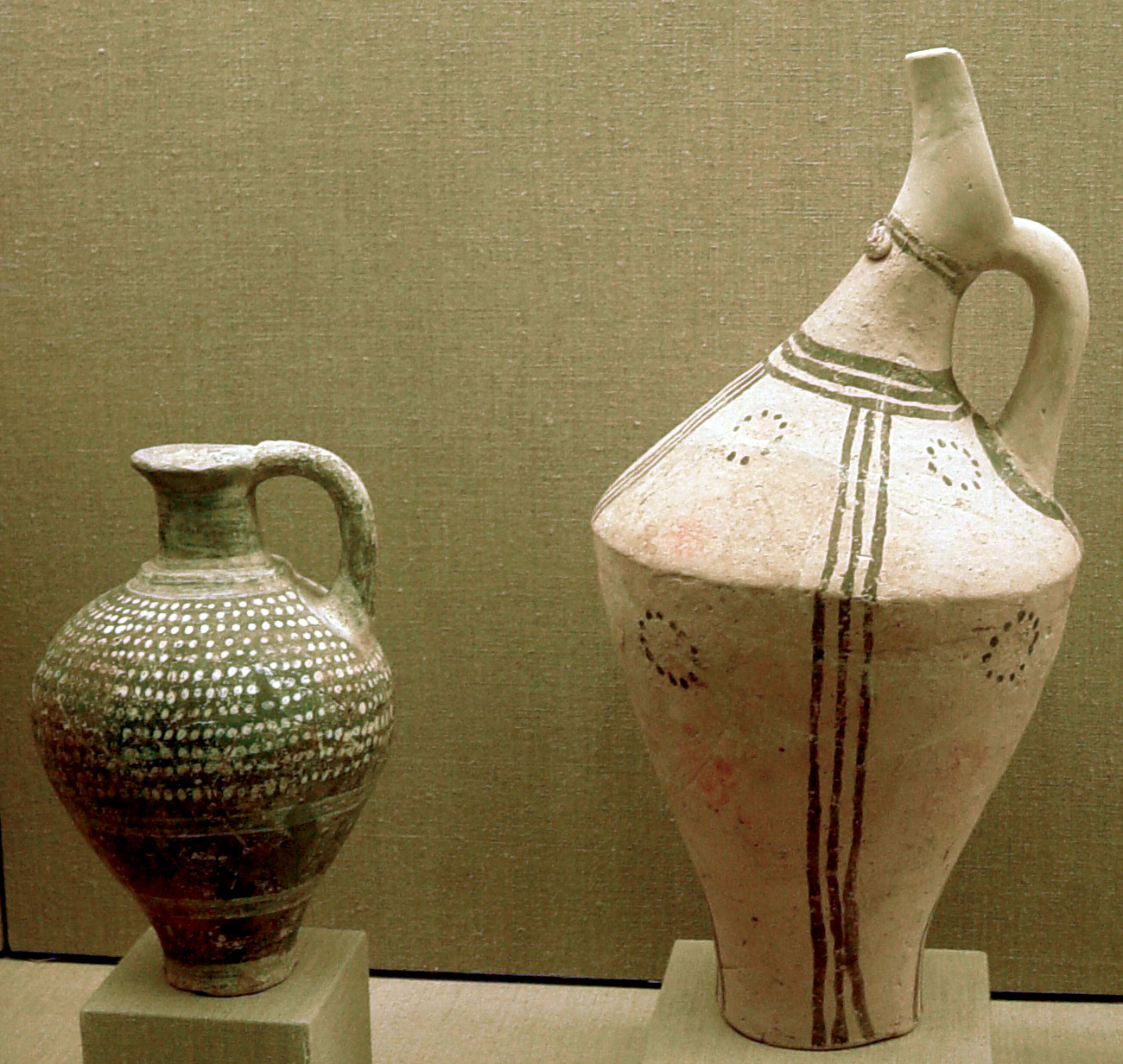 Utilitarian terracotta object, Museum of Cycladic Culture, Akrotiri excavation artifacts, Santorini, Cyclides, Hellas (Greece)